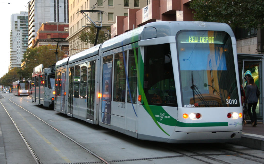 C class tram 3010 on Spencer Street - Melbourne, Australia